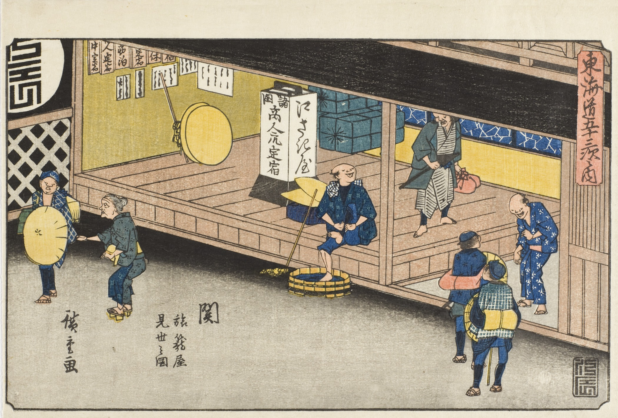 circa 1841-1842 Series: number 48 Prints; woodcuts Color woodblock print Image: 7 11/16 x 12 1/2 in. (19.53 x 31.75 cm); Sheet: 8 11/16 x 12 13/16 in. (22.07 x 32.54 cm); Second support: 11 x 15 15/16 in. (27.94 x 40.48 cm) Gift of Arthur and Fran Sherwood (M.2007.152.3) Japanese Art